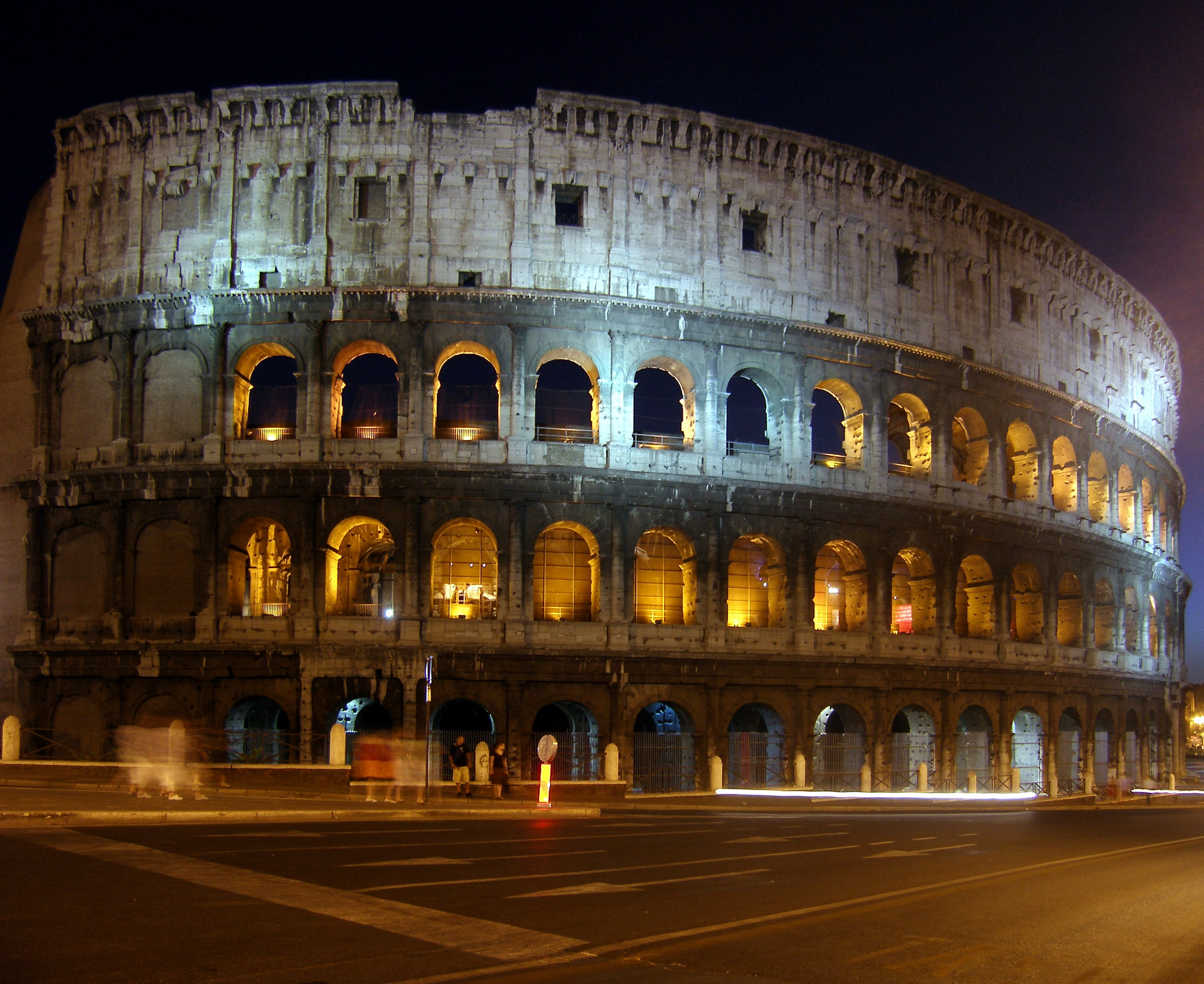 Colosseum in Rome at night, Italy - July 2007